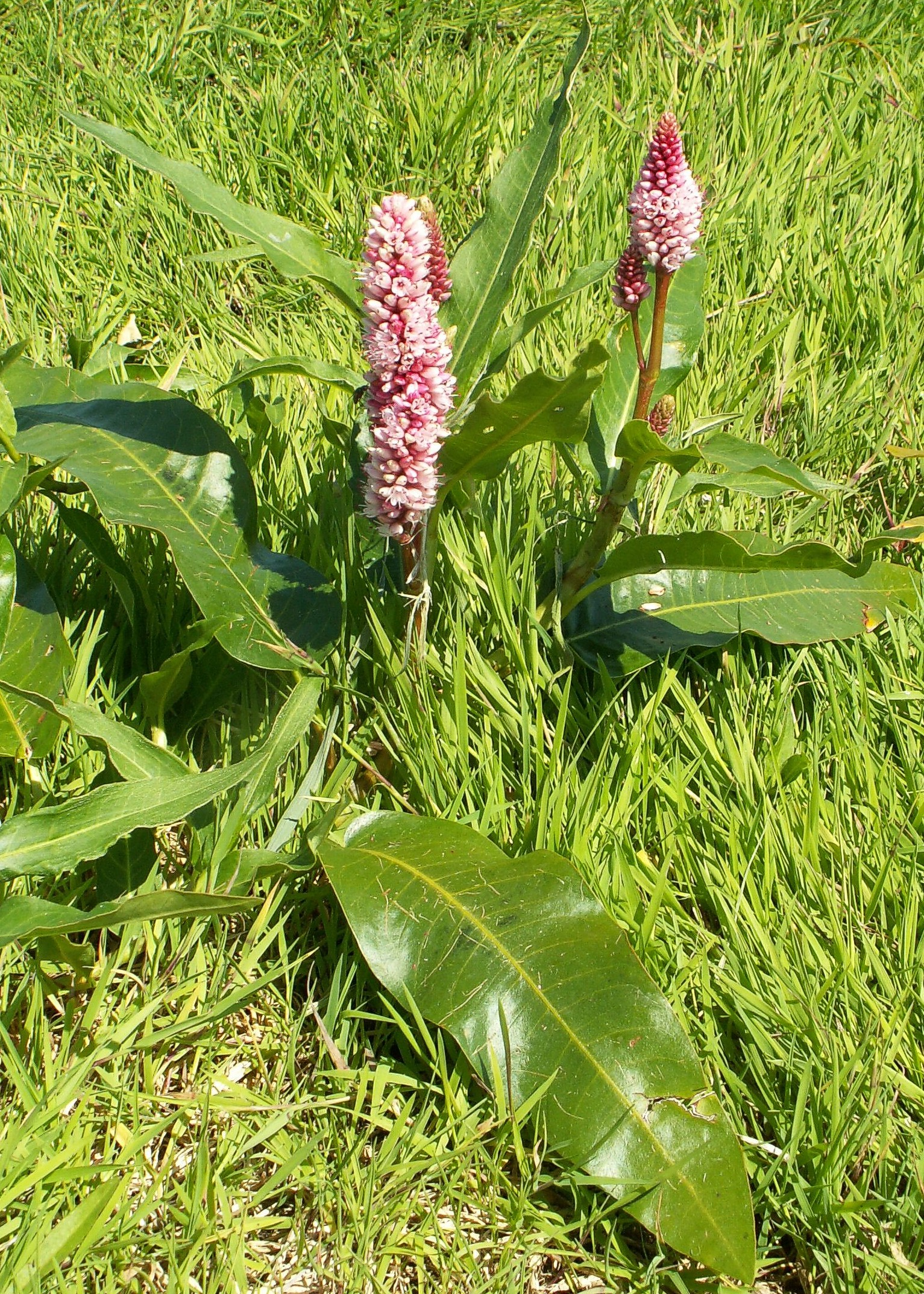 Polygonum amphibium on meadow near Miedwie Lake (NW Poland)